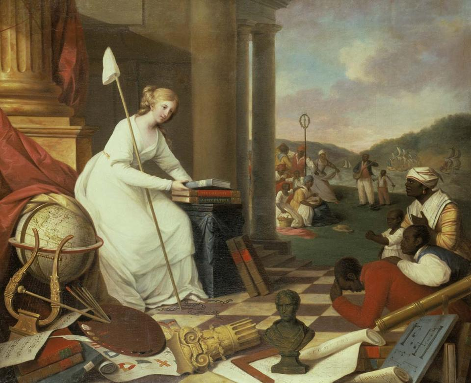 Samuel Jennings (active 1789-1834). Liberty Displaying the Arts and Sciences, or The Genius of America Encouraging the Emancipation of the Blacks, 1792. Oil on canvas. 60 1/4" x 74". Library Company of Philadelphia. Gift of the artist, 1792.